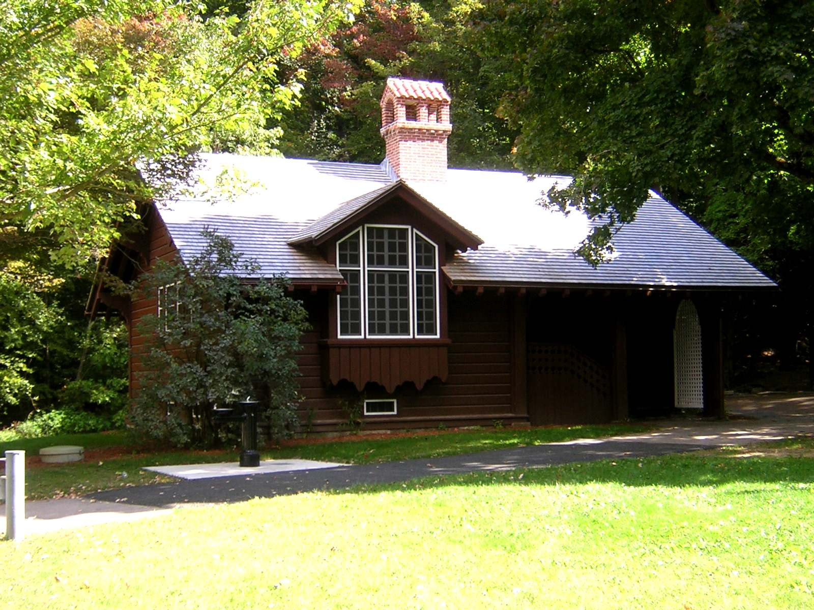 Comfort Station (rest rooms), Canton Avenue, Milton, MA